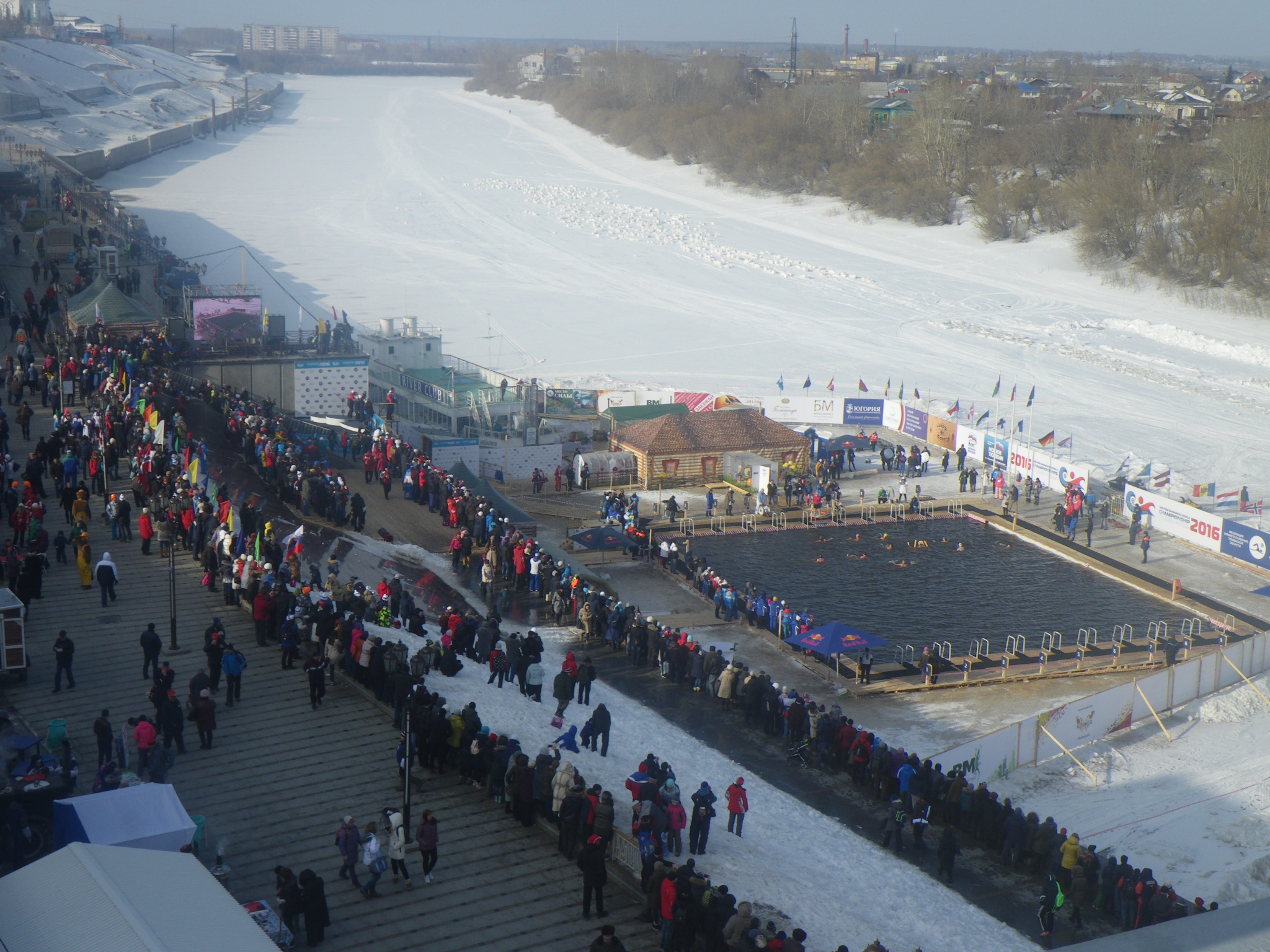 Place of winter swimming competitions (from 25 to 450 meters).